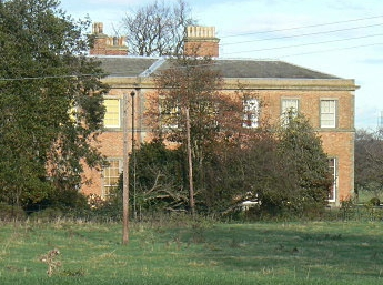 Stoke Hall The hall dates from the 16th century but was almost entirely remodelled in 1812 by Lewis Wyatt.